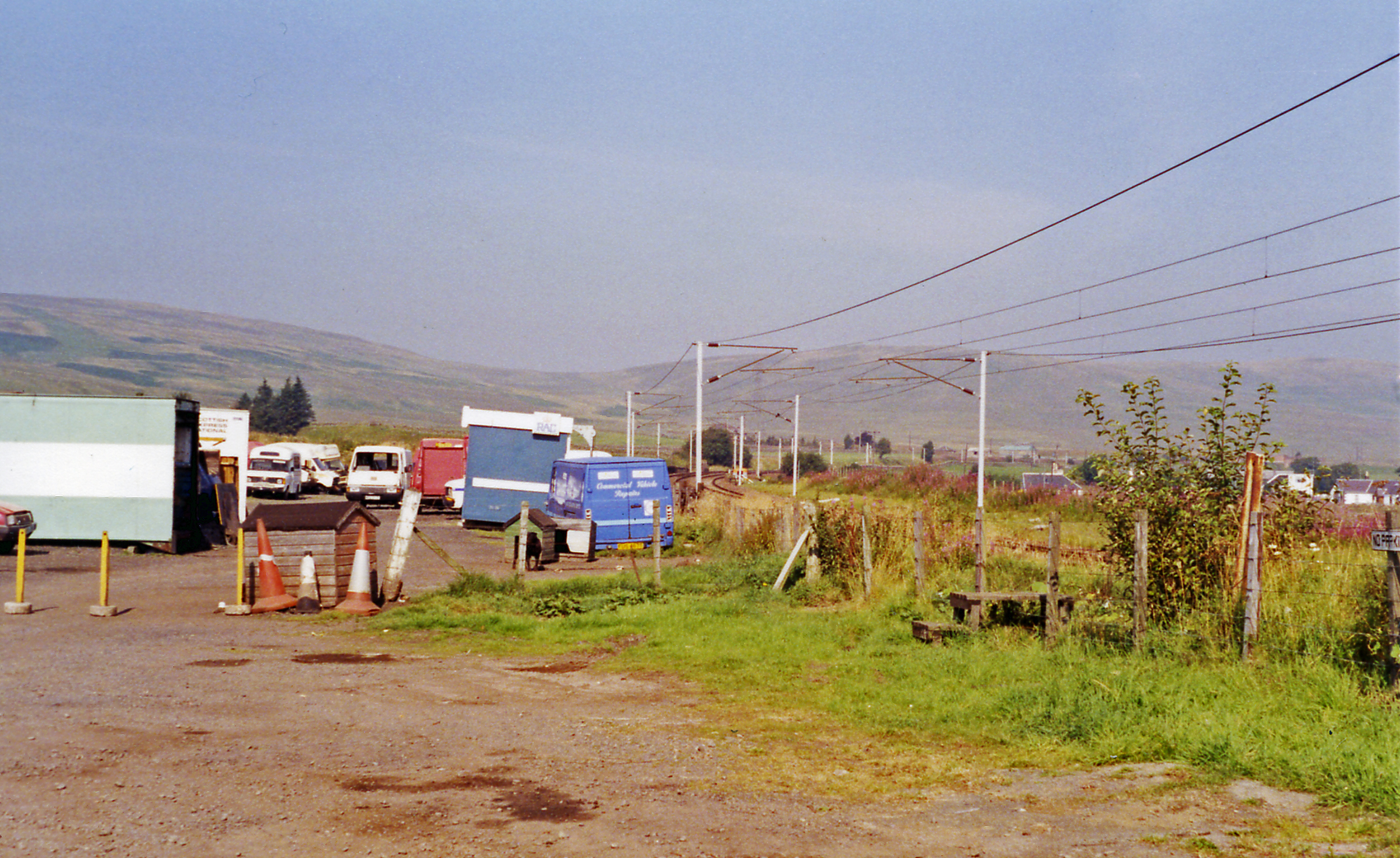 Elvanfoot: site of station, 1991. View northward, towards Carstairs and Glasgow/Edinburgh: ex-Caledonian West Coast Main Line (electrified 1974), junction of branch to Wanlockhead (closed 2/1/39). Elvanfoot station was closed 4/1/65.